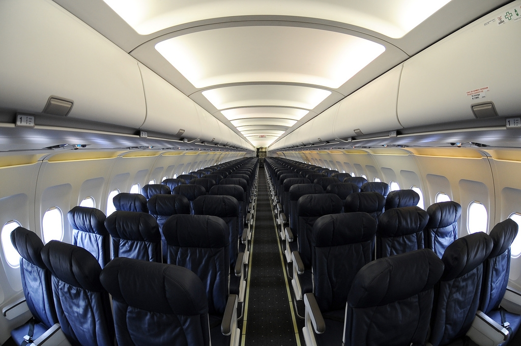 Avianova interior